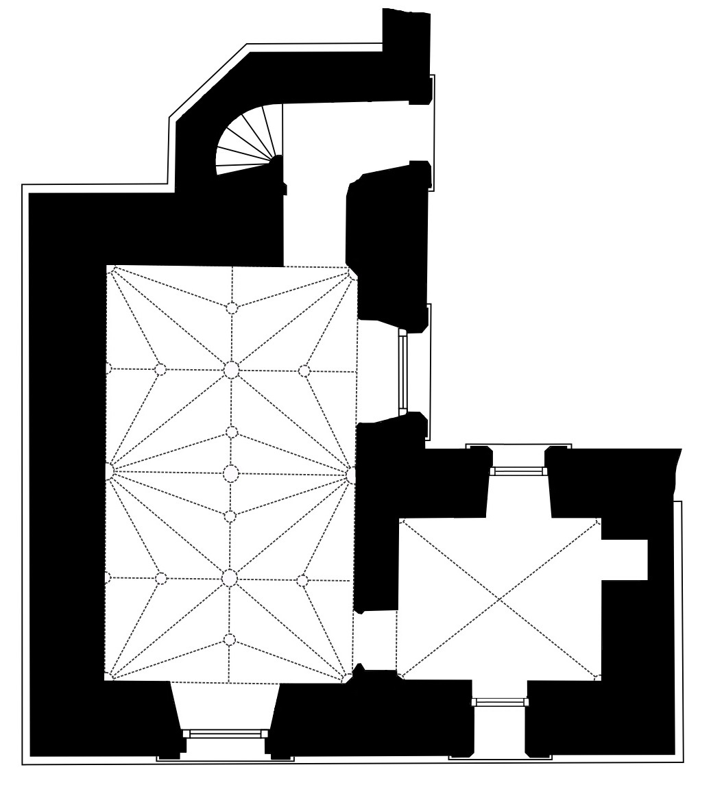 After A. J. Taylor's plan in "The Jewel Tower", 1965, inside cover